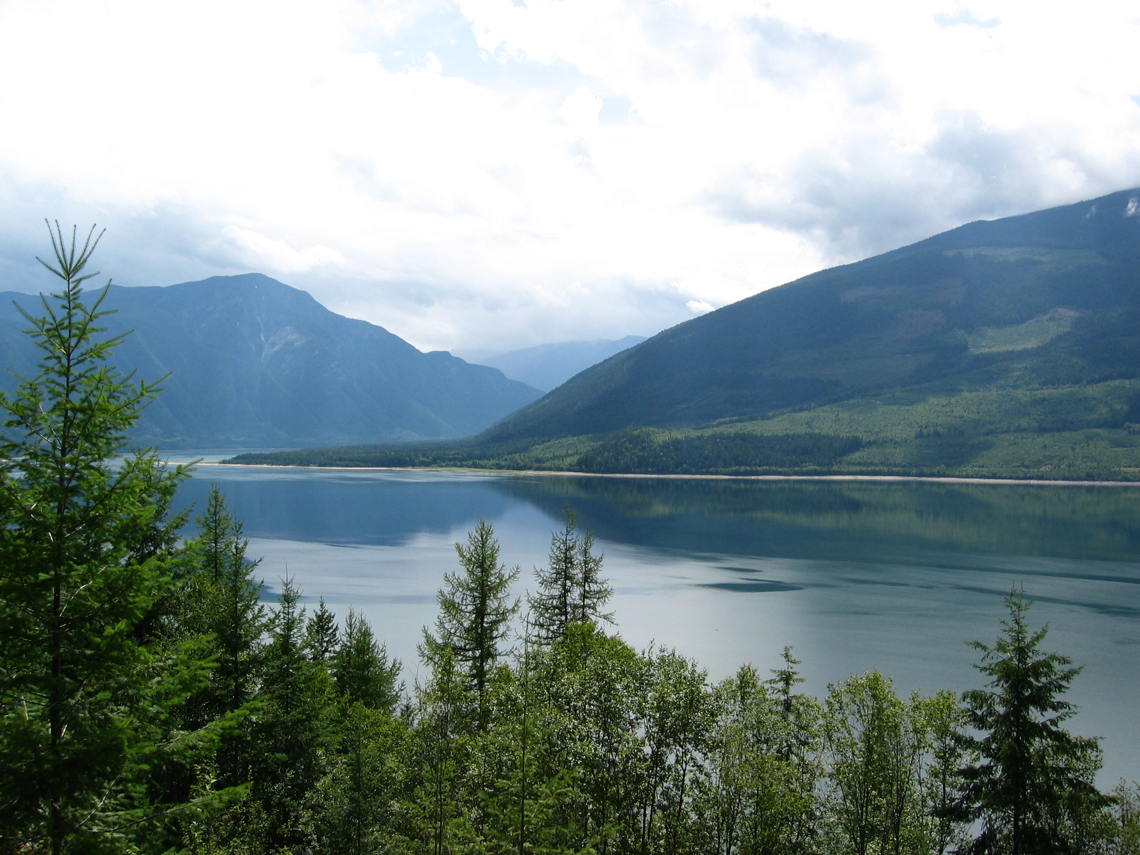 View of Upper Arrow Lake south of Nakusp, B.C., Canada